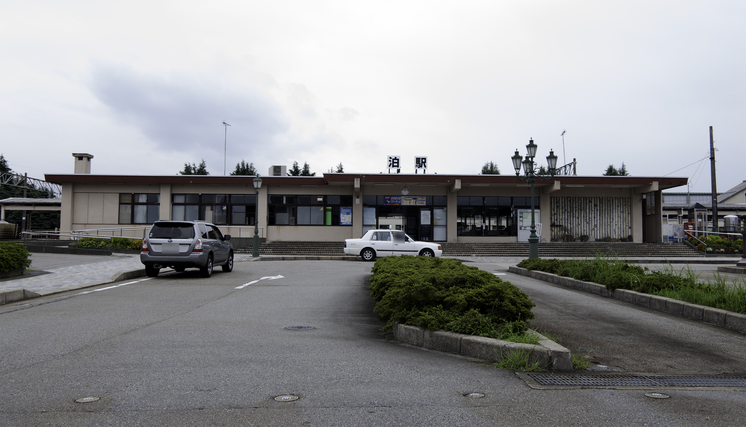 Tomari Station in Toyama Prefecture, Japan